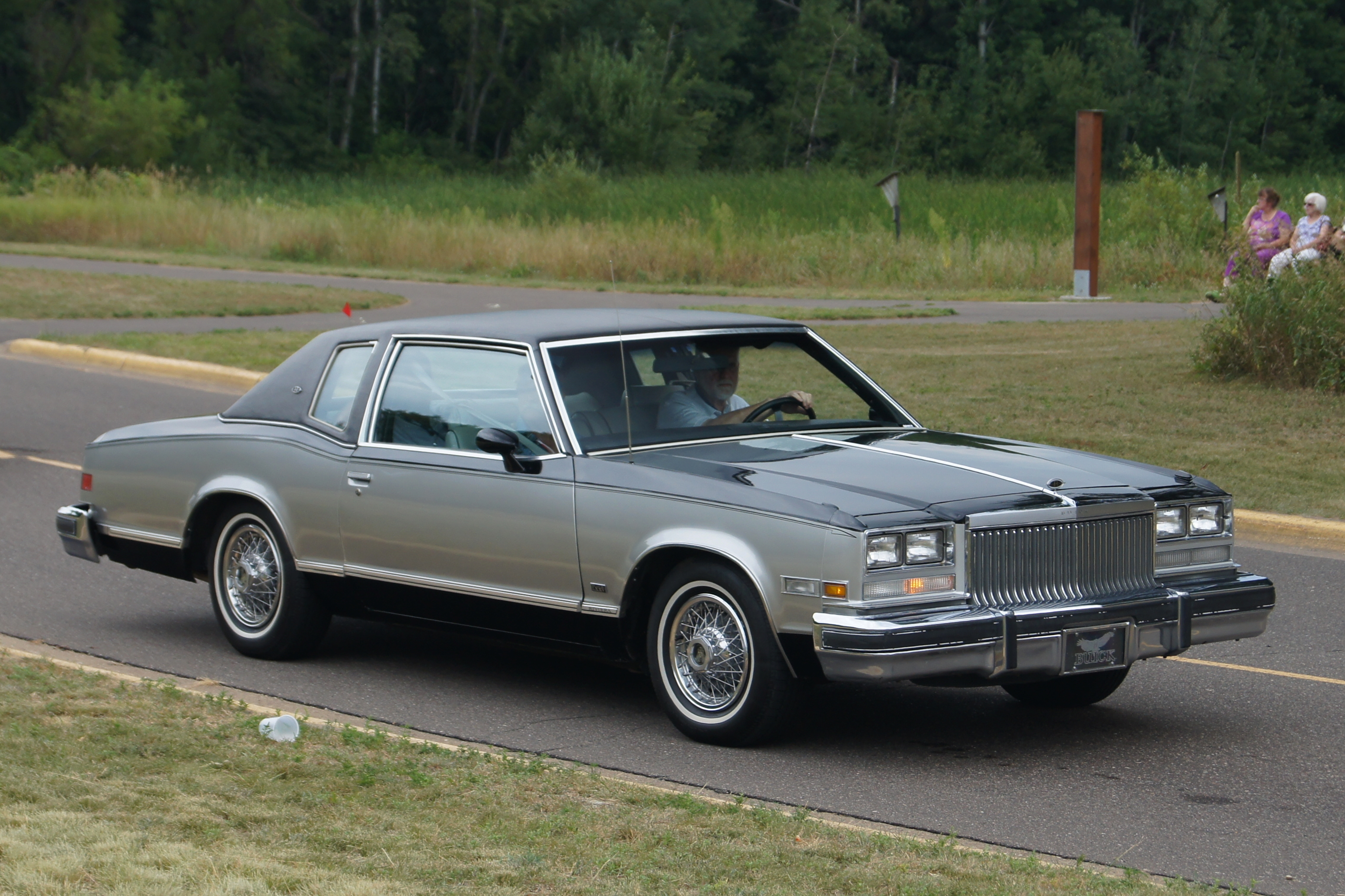 28th Annual New London to New Brighton Antique Car Run Finish Stockyard Days Long Lake Regional Park New Brighton Minnesota Mile 118.5